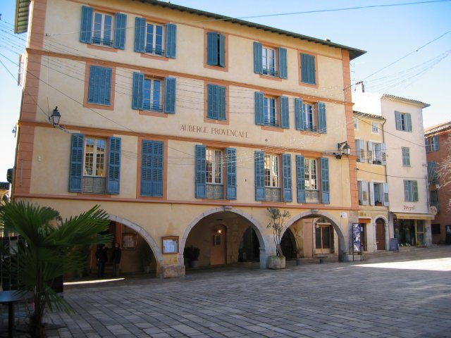 Valbonne's central square